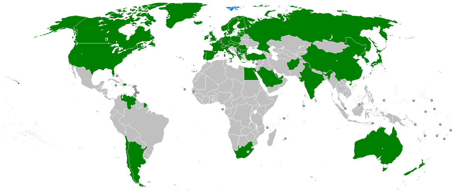 Map over Svalbard signatories countries